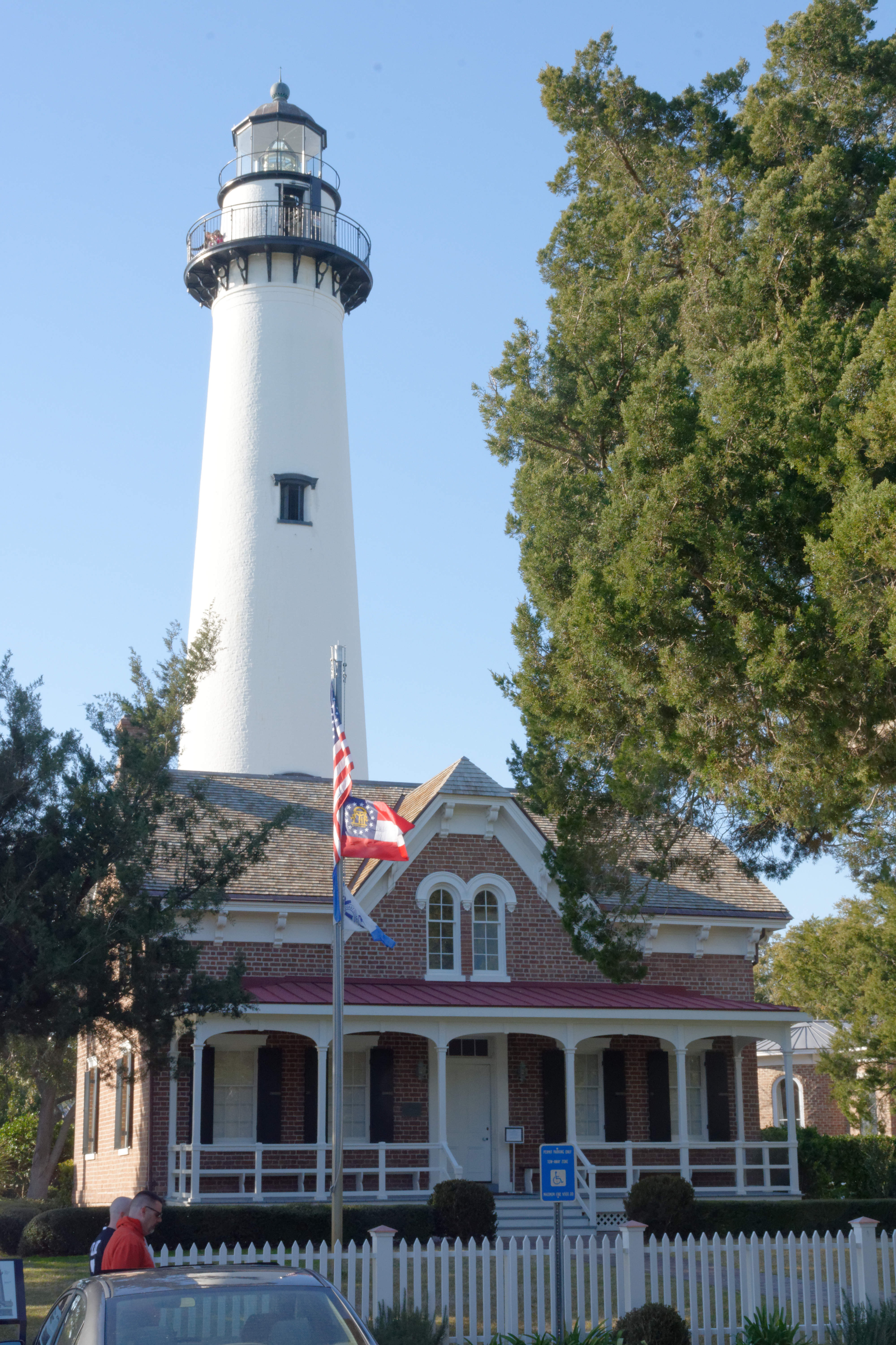 St. Simons Island Light (lighthouse) and keeper's house, which is now a museum